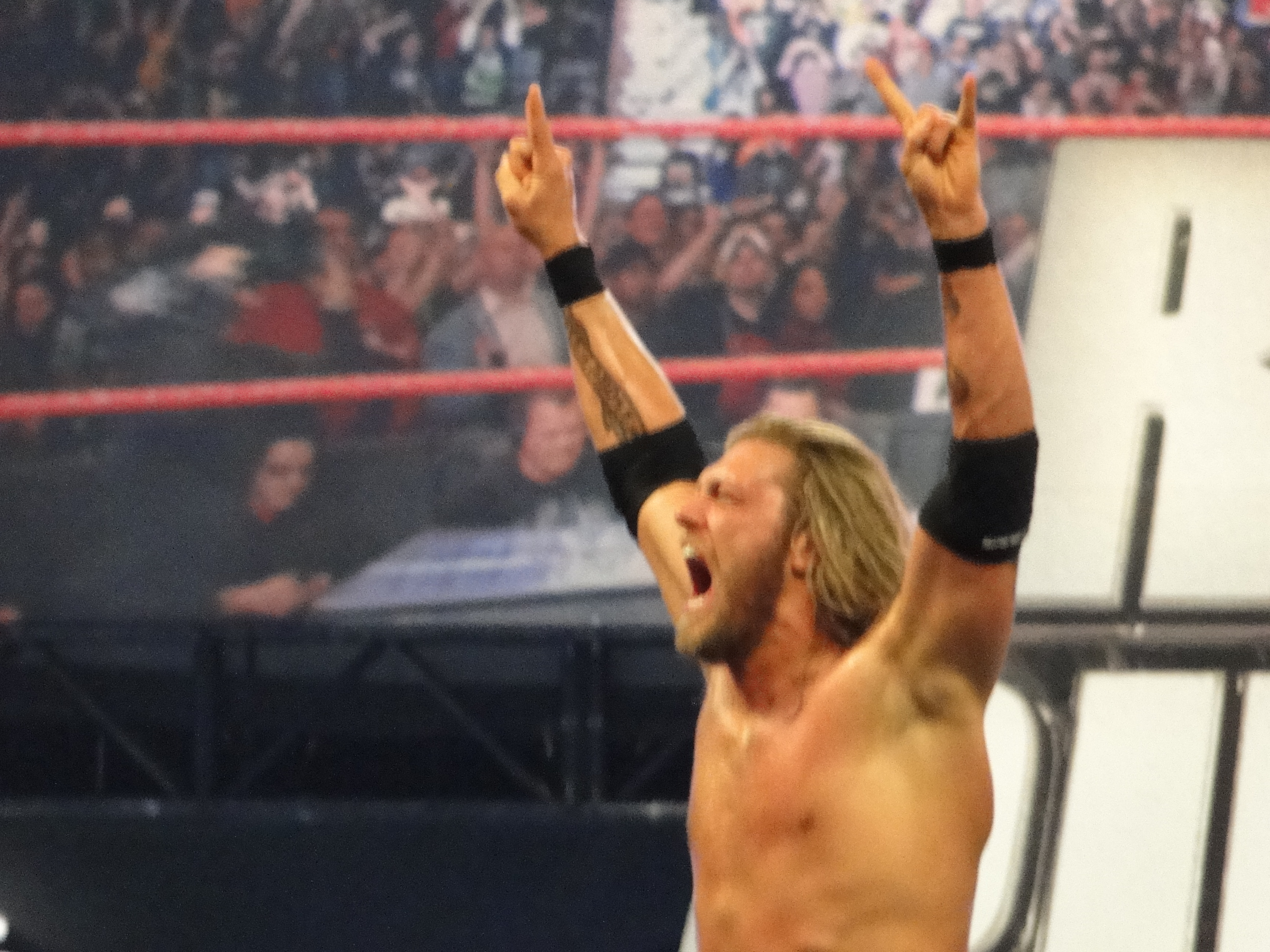 Edge after wins the royal rumble